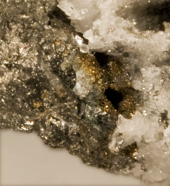 Cubanite - Gabe Gottes, Ste Marie-aux-Mines Haut-Rhin, Alsace, France